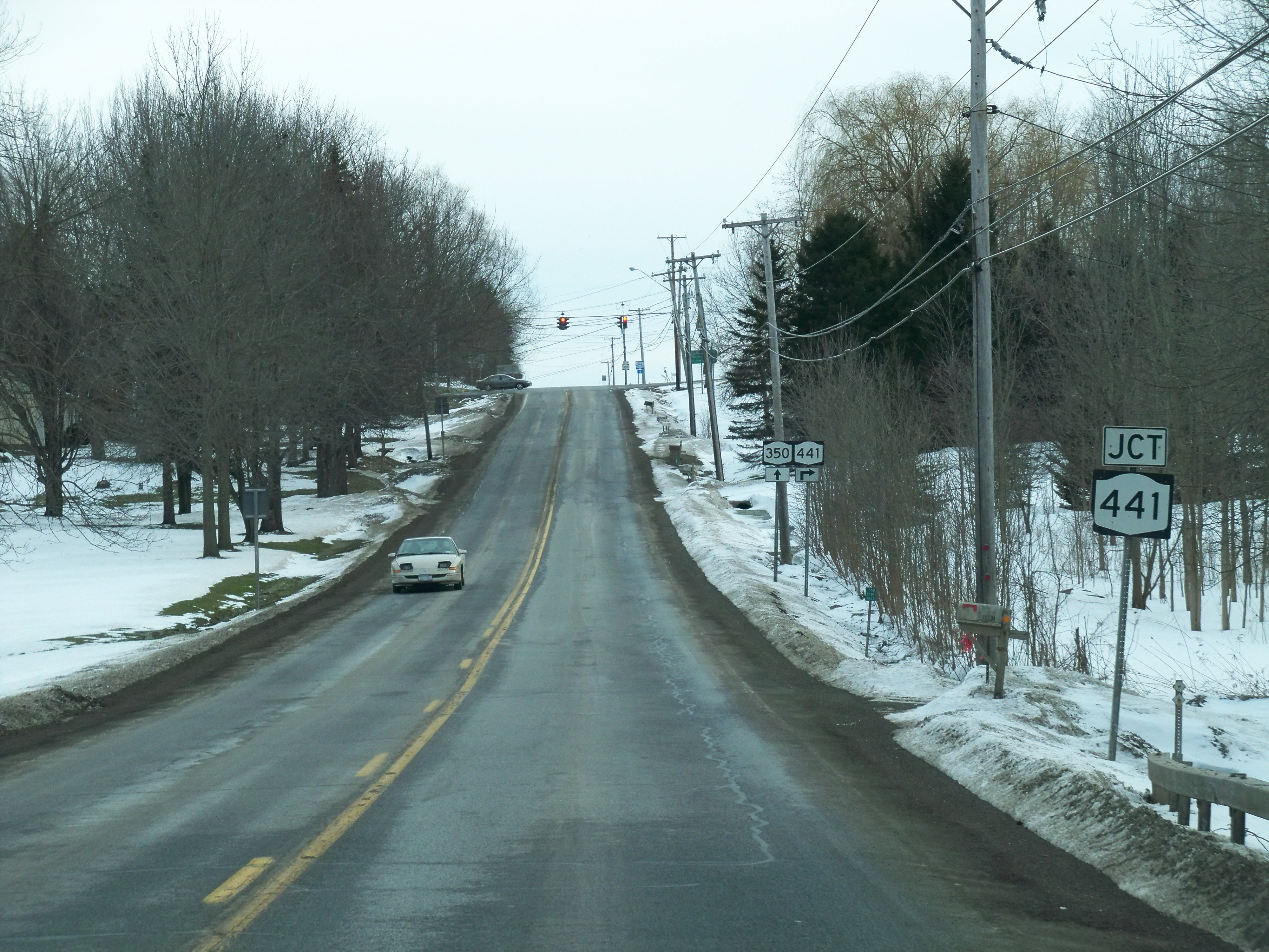 New York State Route 350 southbound at New York State Route 441 in Walworth.